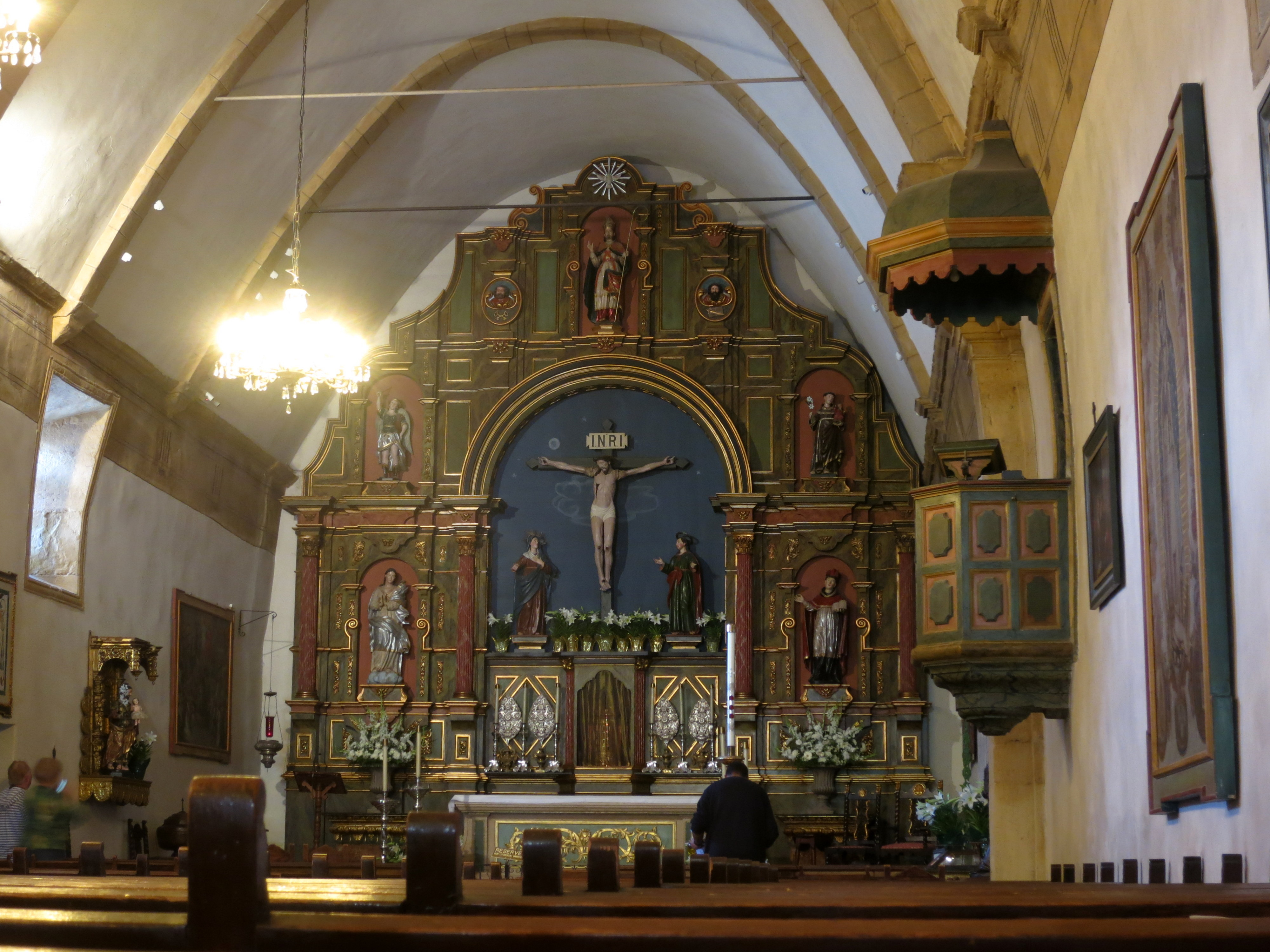 Mission San Carlos Borromeo de Carmelo (Carmel, CA) - basilica interior, nave